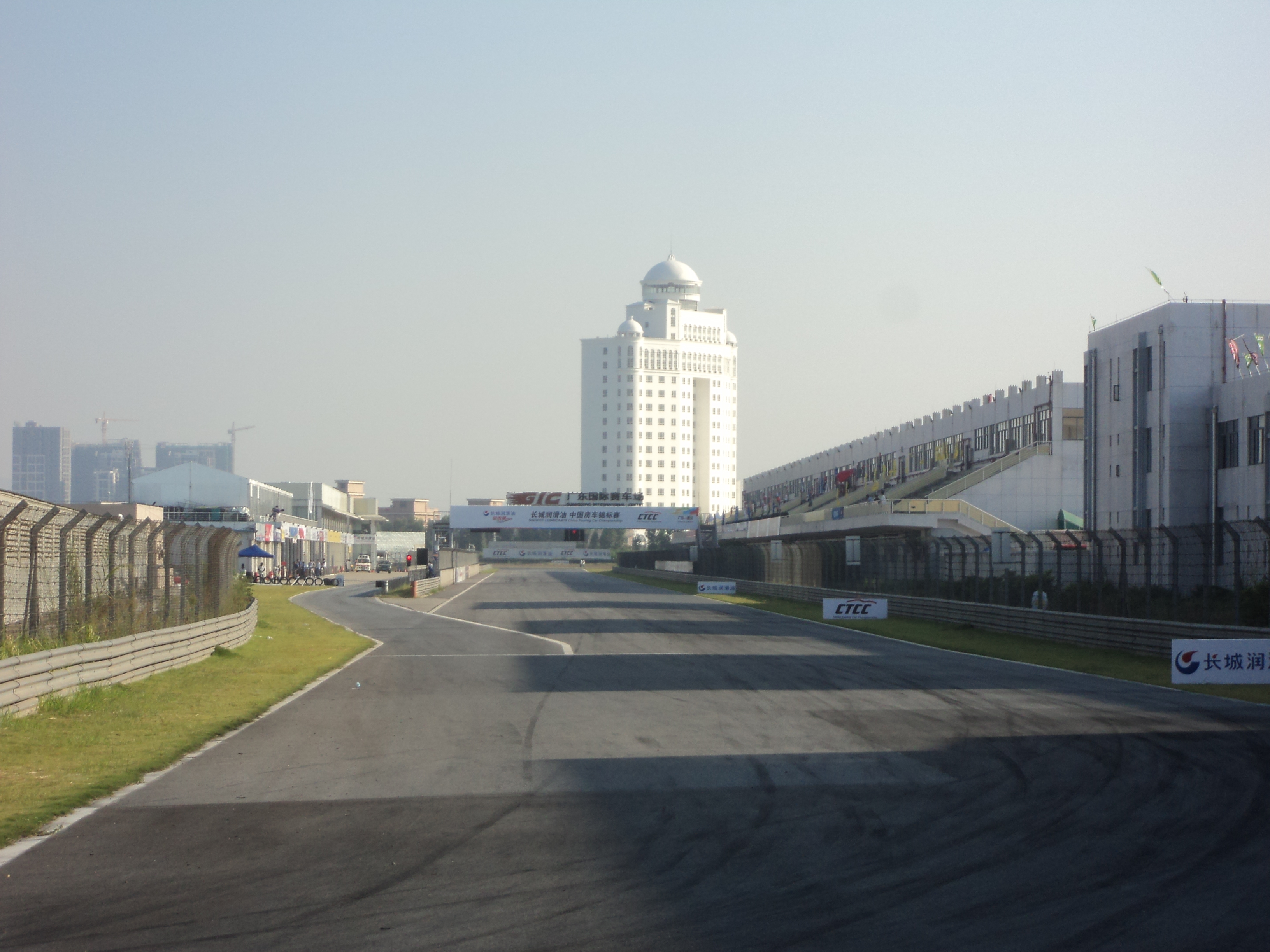 Main straight of the Guangdong International Circuit at Zhaoqing. 中文（香港）: 廣東國際賽車場的大直路